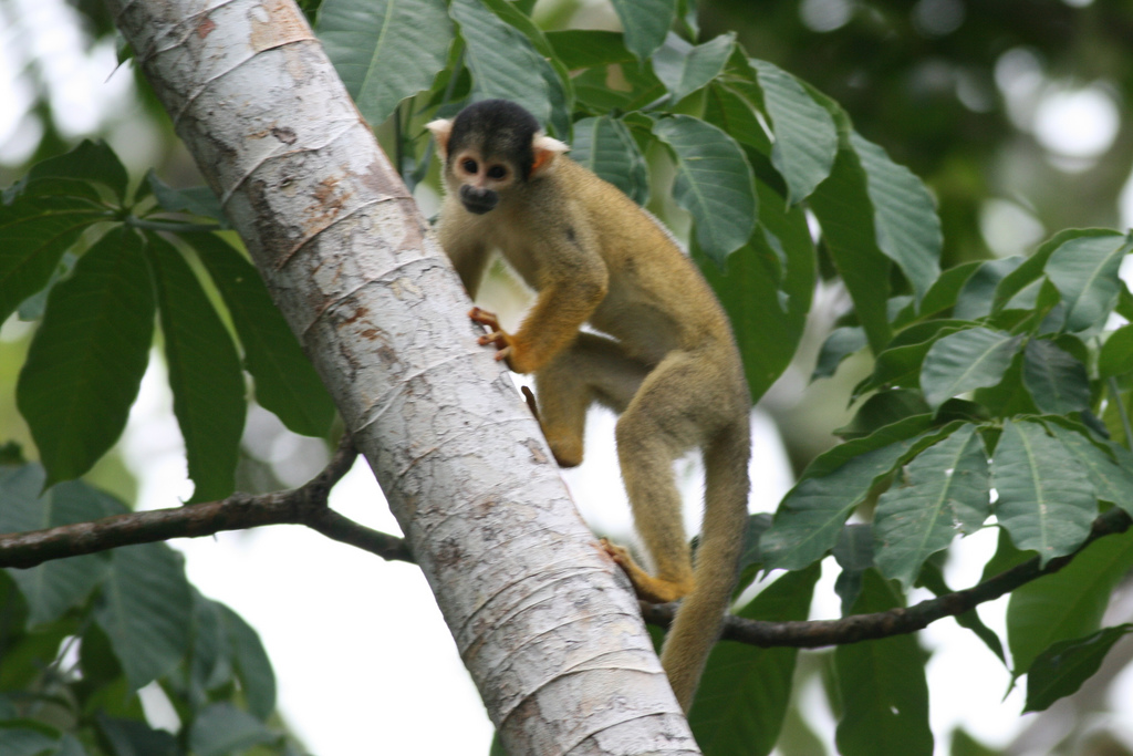 Common Bolivian Squirrel Monkey Saimiri boliviensis boliviensis, Chalalan Lake, Tuichi River, Madidi National Park, Bolivia.